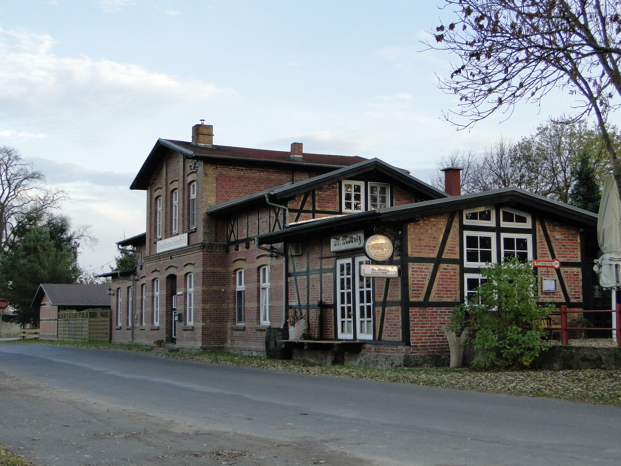 Former train station in Quadenschönfeld, district Mecklenburg-Strelitz, Mecklenburg-Vorpommern, Germany